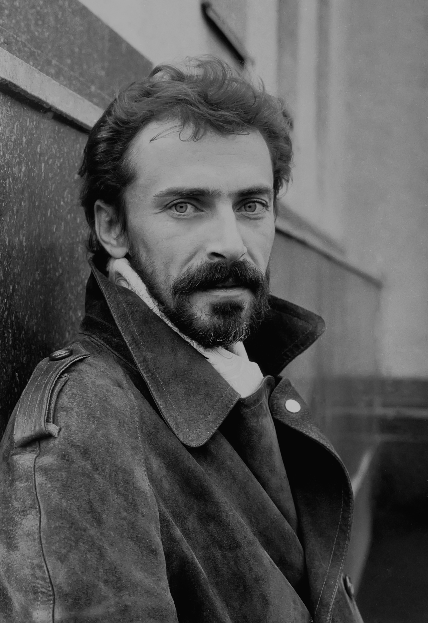 Oleh Mosiychuk